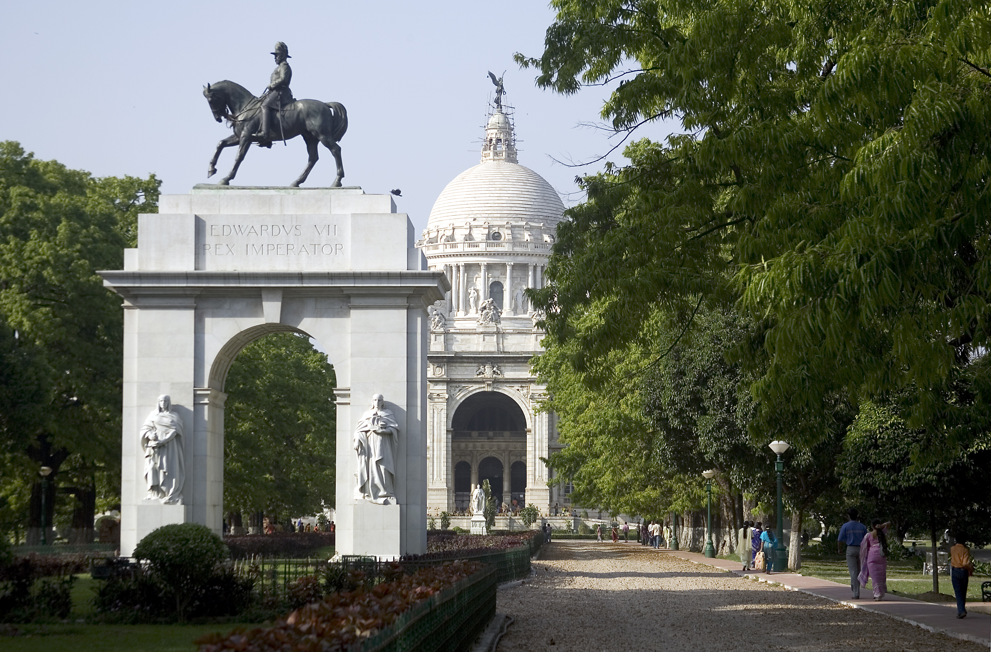 The Victorian museum Calcutta Kolkata India